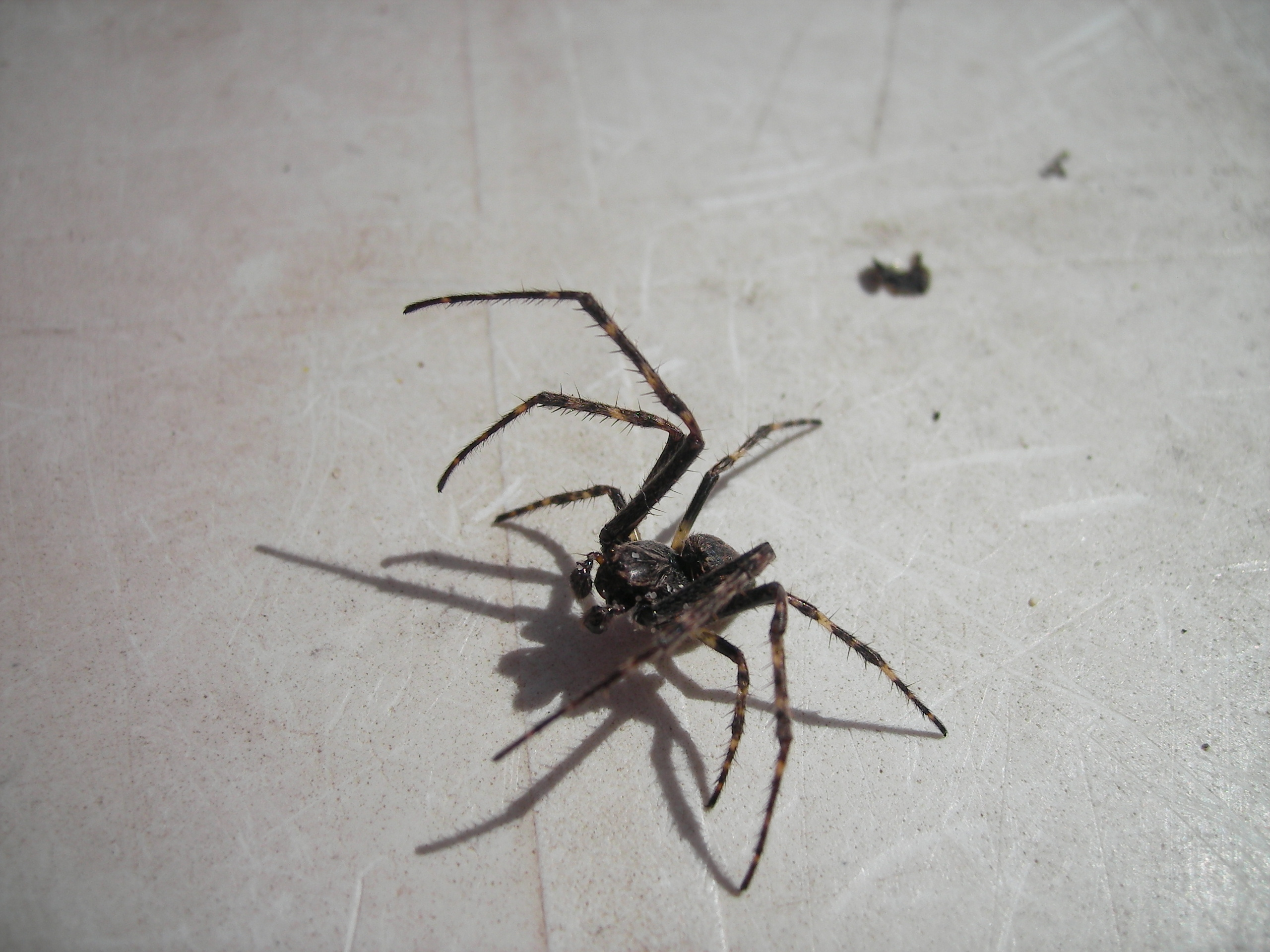 Spider, Nuctenea umbratica